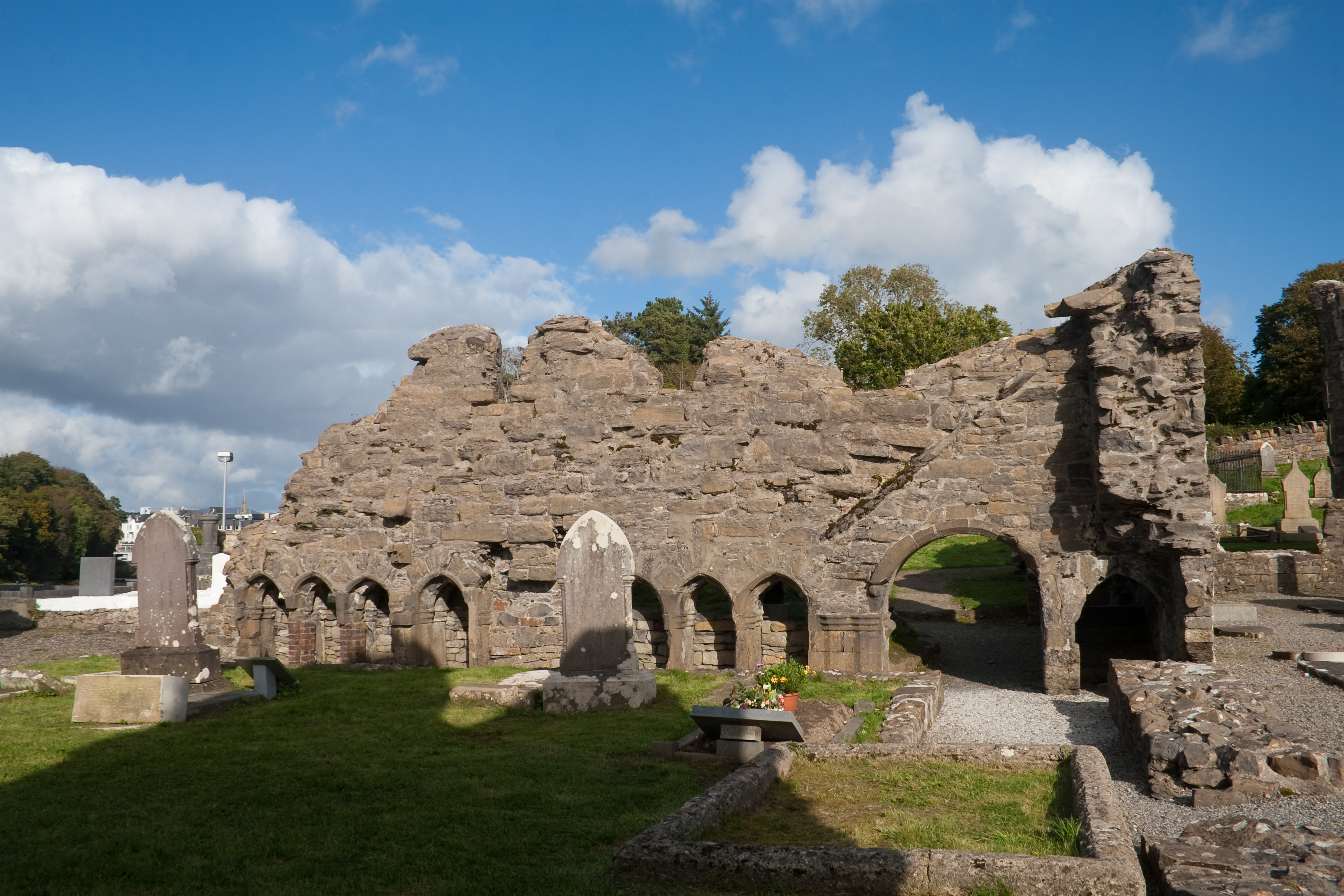 Donegal Friary, Donegal, County Donegal, Ireland East range of the cloister arcades, as seen from the green, looking east.